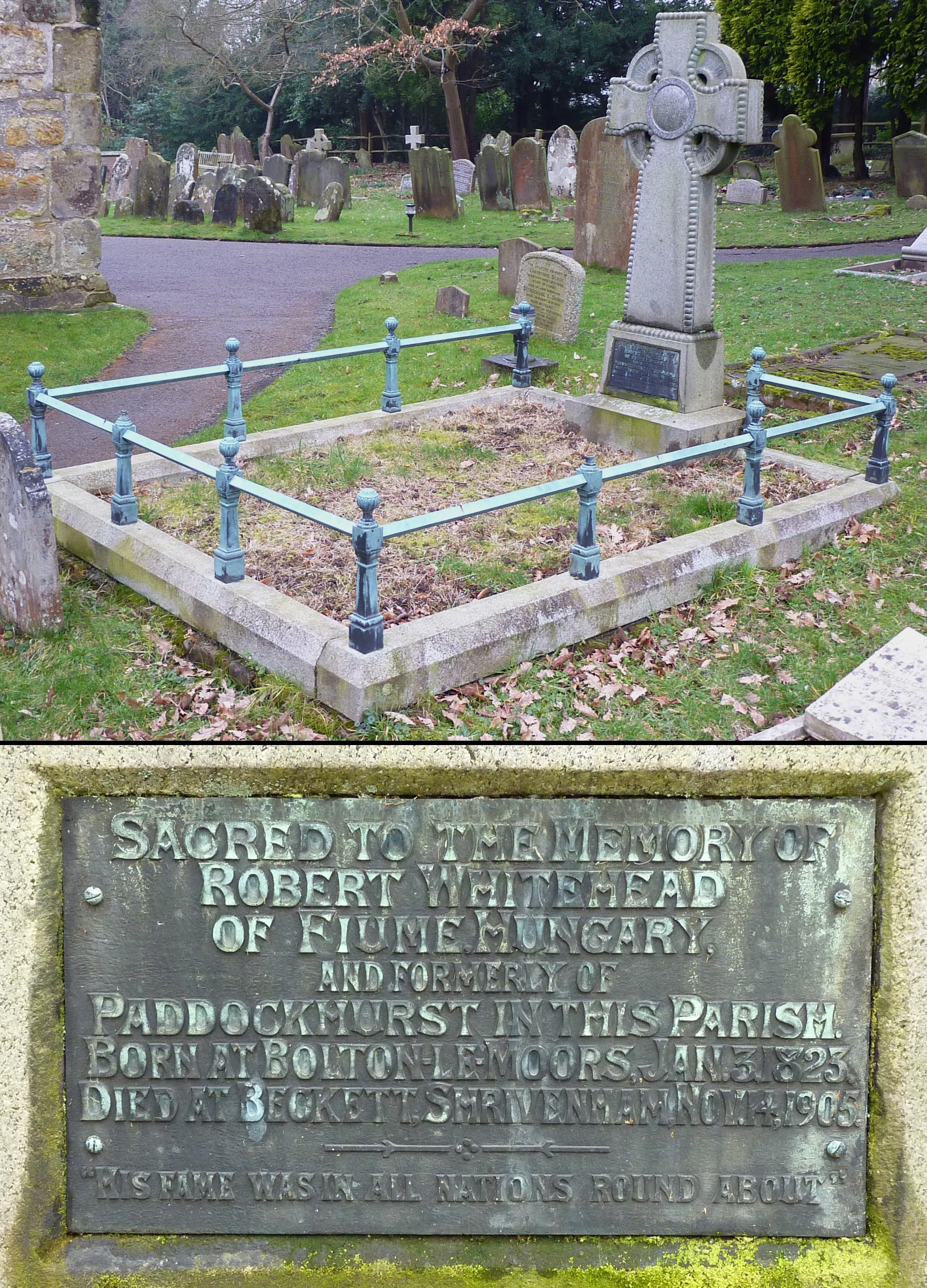 The grave of Robert Whitehead, the inventor of the modern torpedo, at St Nicholas' Church, Worth, West Sussex, England, pictured in 2013.